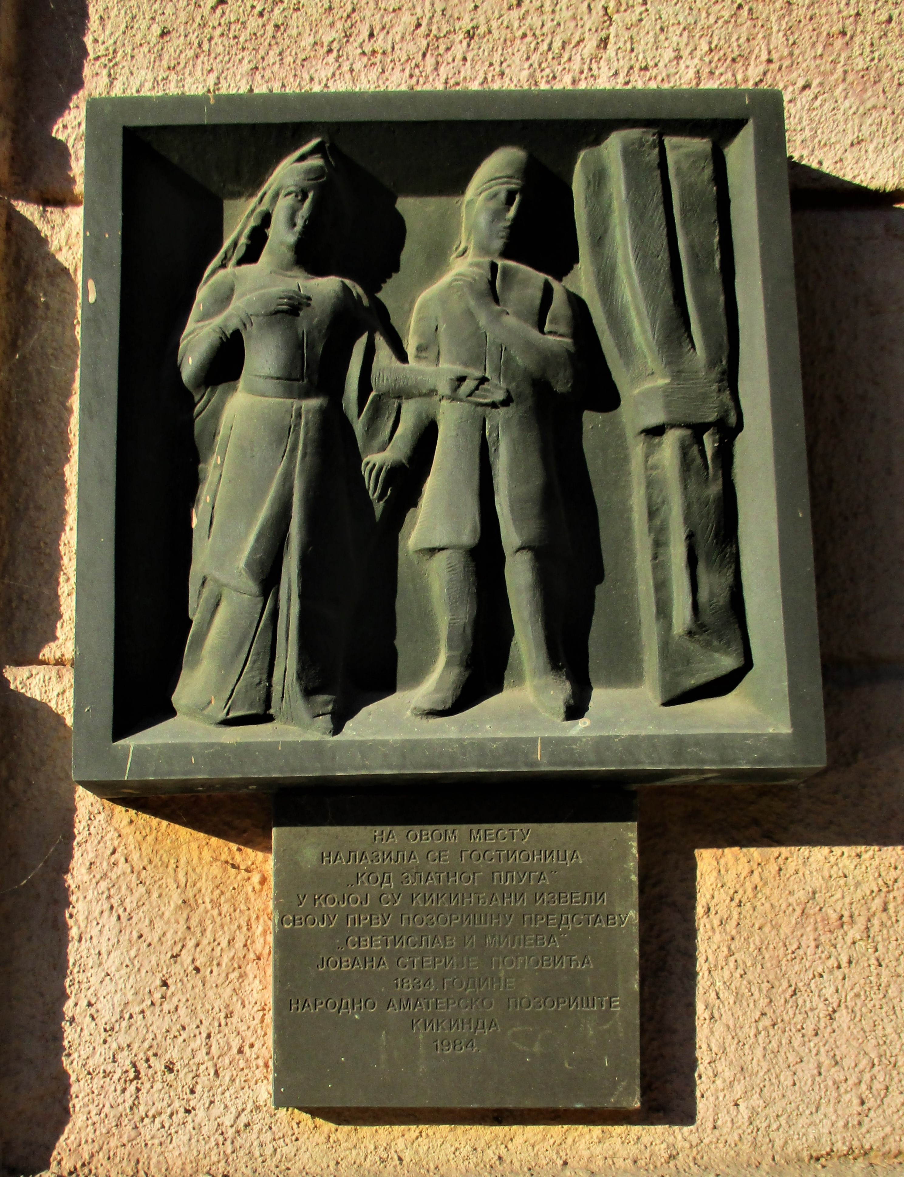 In the house with this memorial plaque was held the first theatrical play in Serbian language by actors from Kikinda. The house is in Dositejeva Street in Kikinda. The first play was Svetislav and Mileva by Jovan Sterija Popović. The plaque is the work of academic sculptor Nebojša Mitrić. Srpski (latinica): Spomen ploča na kući u Dositejevoj ulici u Kikindi, postavljena povodom 150 godina od održavanja prve predstave na srpskom jeziku u Kikindi, izvedene od strane Kikindjana. Ploča je rad vajara Nebojše Mitrića.